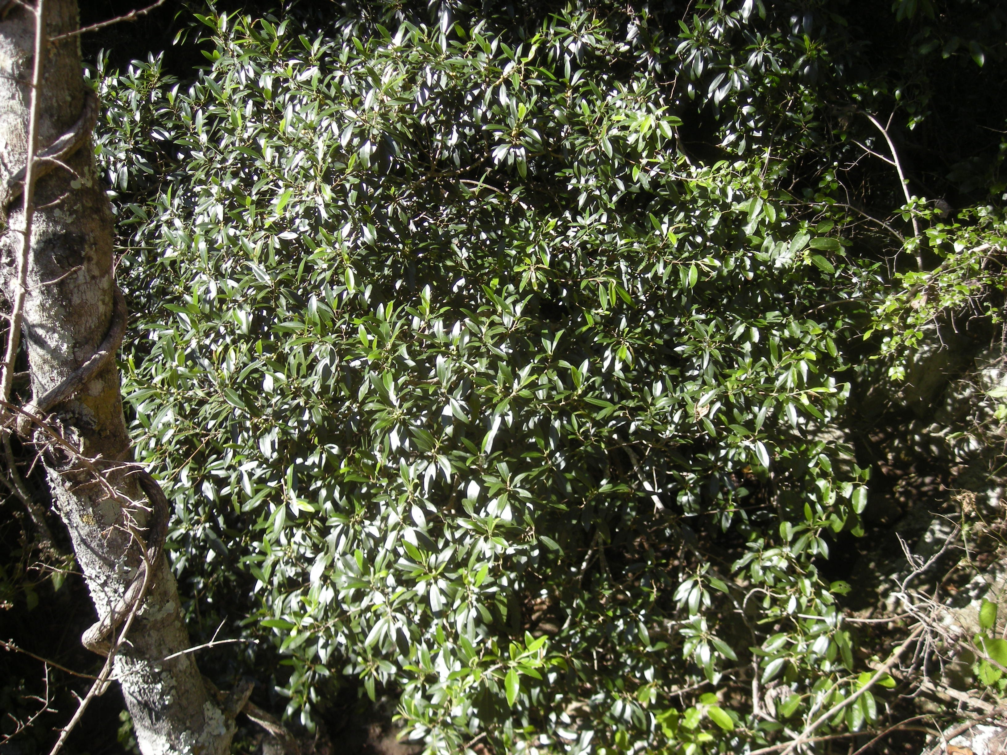 Ficus platypoda habit